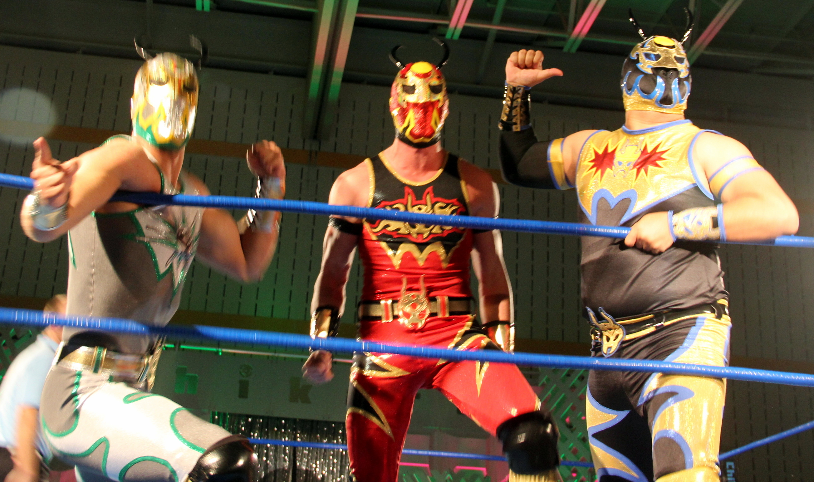 Silver Ant, Fire Ant, and Worker Ant II (from left to right) at Chikara's King of Trios Night 1 show in September 2014. Cropped from original image.